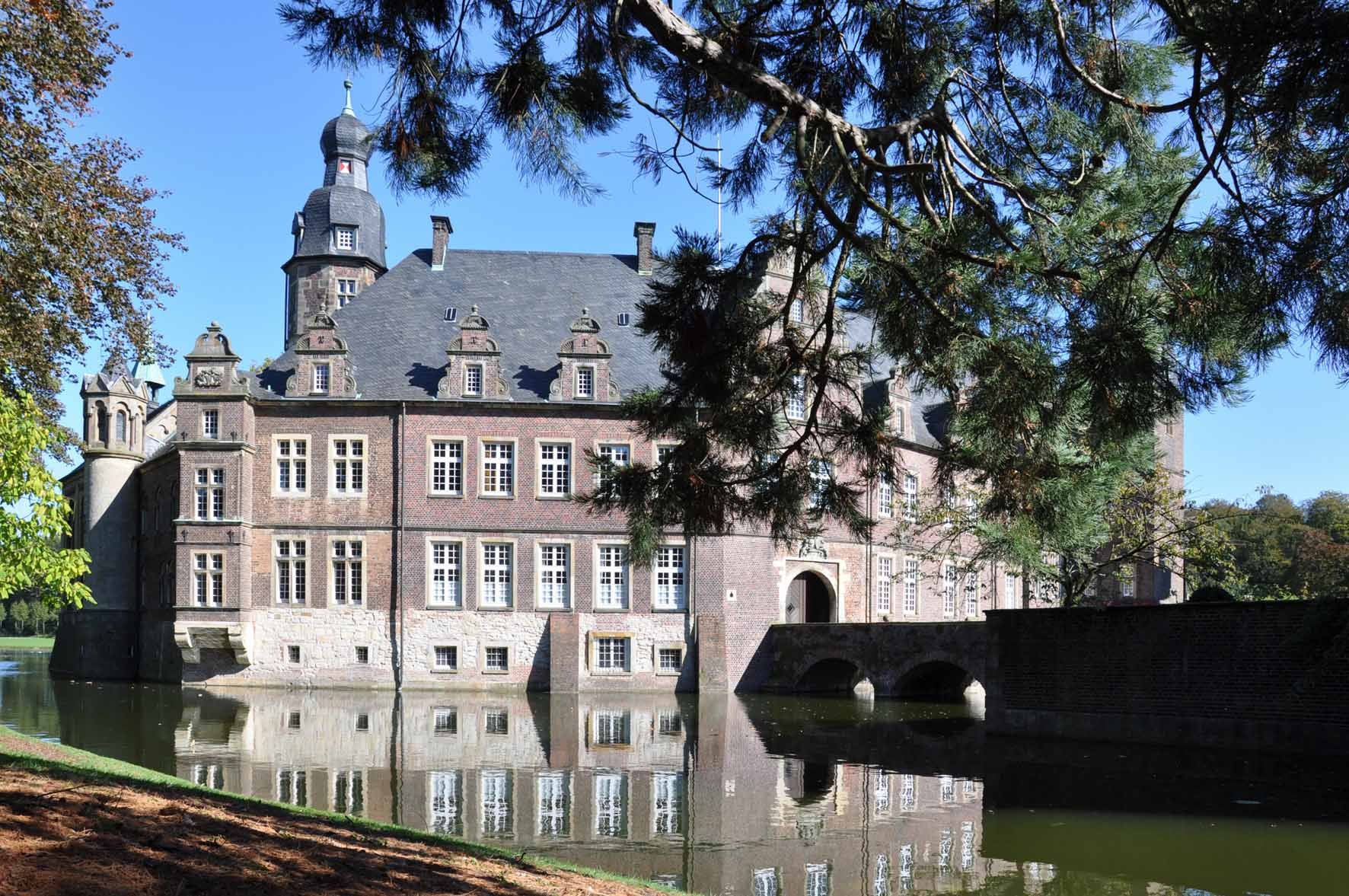 Darfeld water castle: Gallery building with gateway